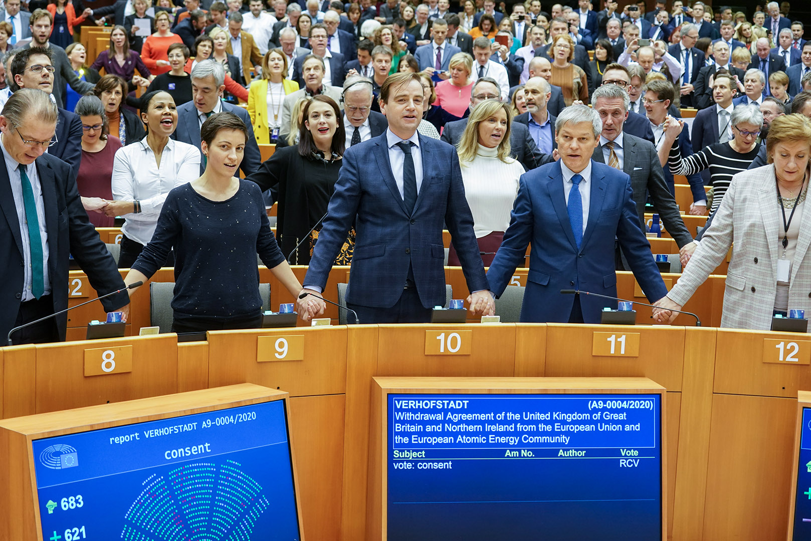 Watch our Top Story collection about the Brexit here: These photos are free to use under Creative Commons license CC-BY-4.0 and must be credited: "CC-BY-4.0: © European Union 2020 – Source: EP". No model release form if applicable. For bigger HR files please contact: photobookings(AT)